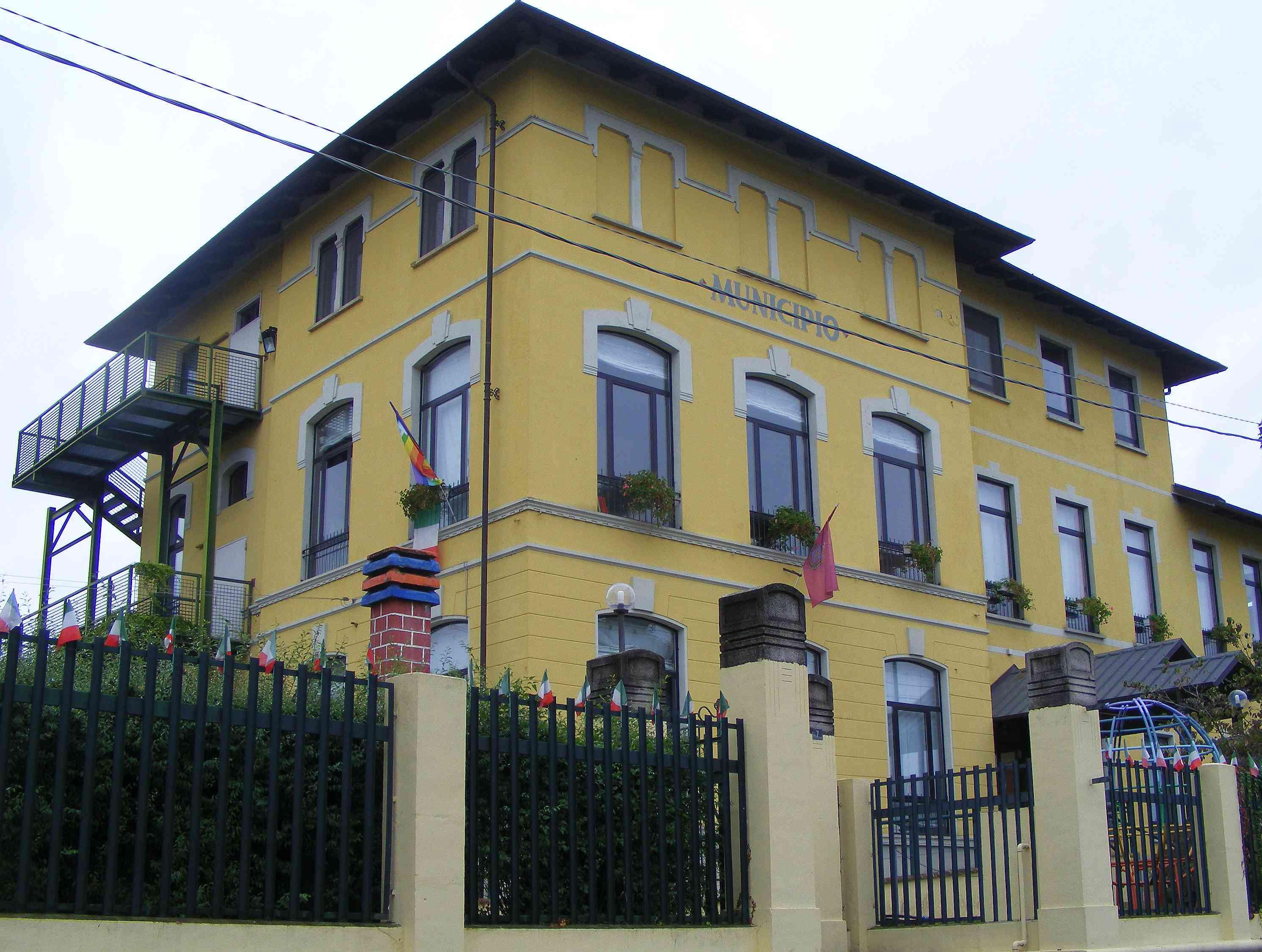 Robassomero (TO, Italy): town hall